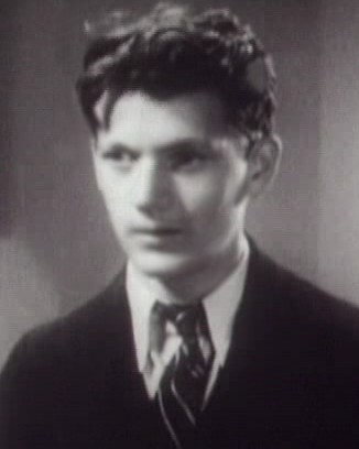 Cropped screenshot of Junior Durkin from the film Hell's House.